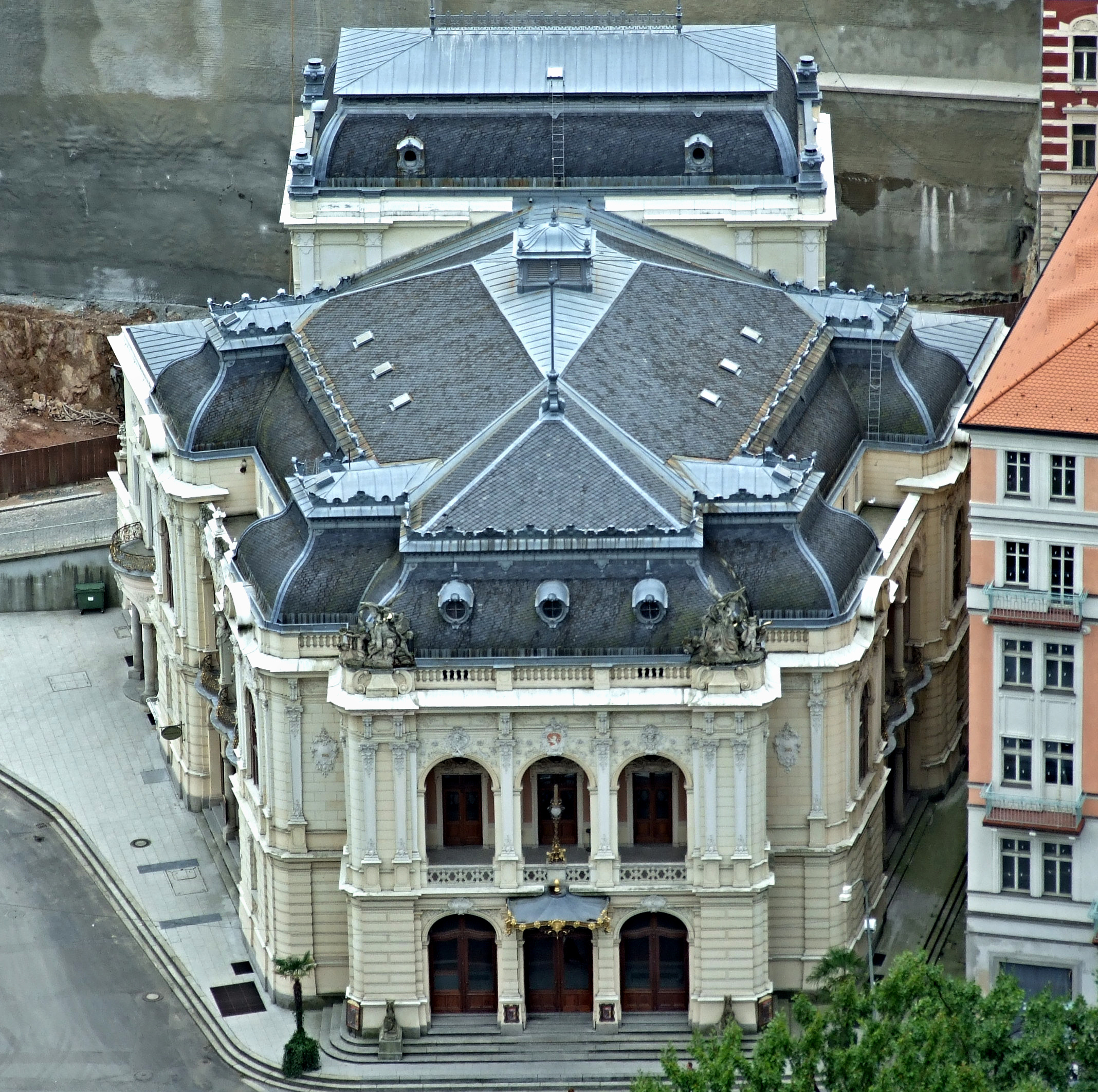 Theater in Karlovy Vary, situated in the very center of the cityhelp